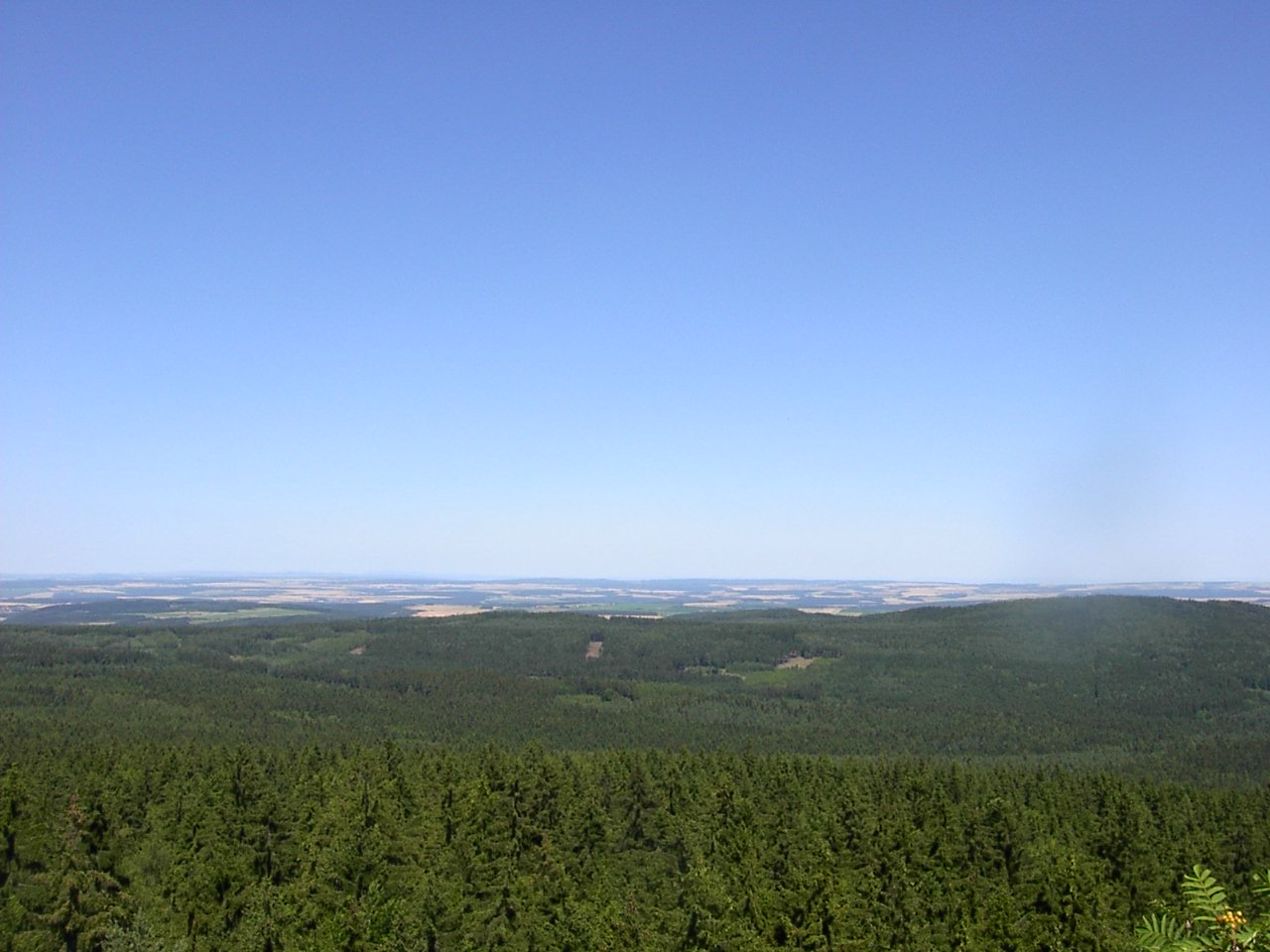 North view to Radeč mountain, Brdy.